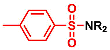 ts group